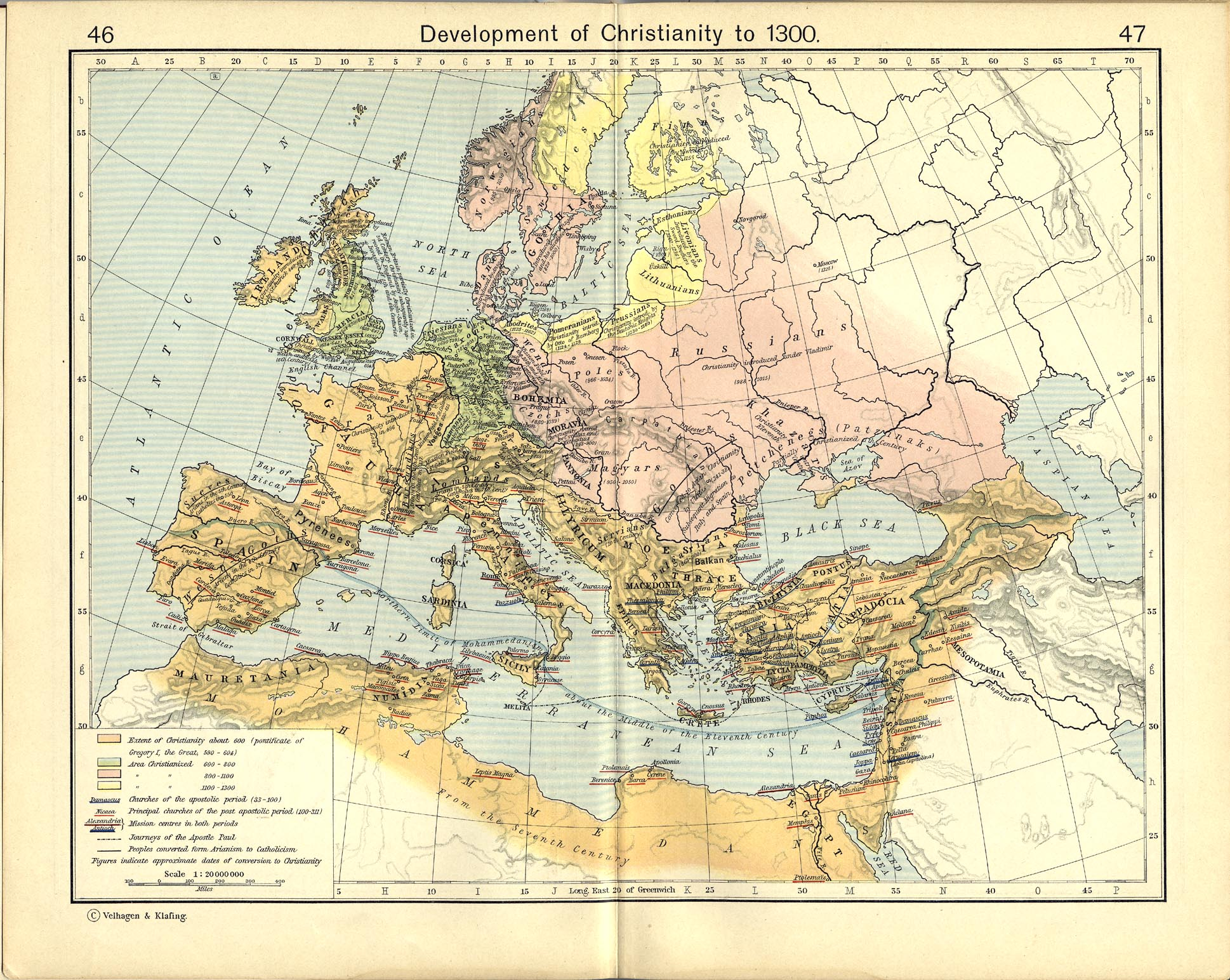 Development of Christianity to 1300